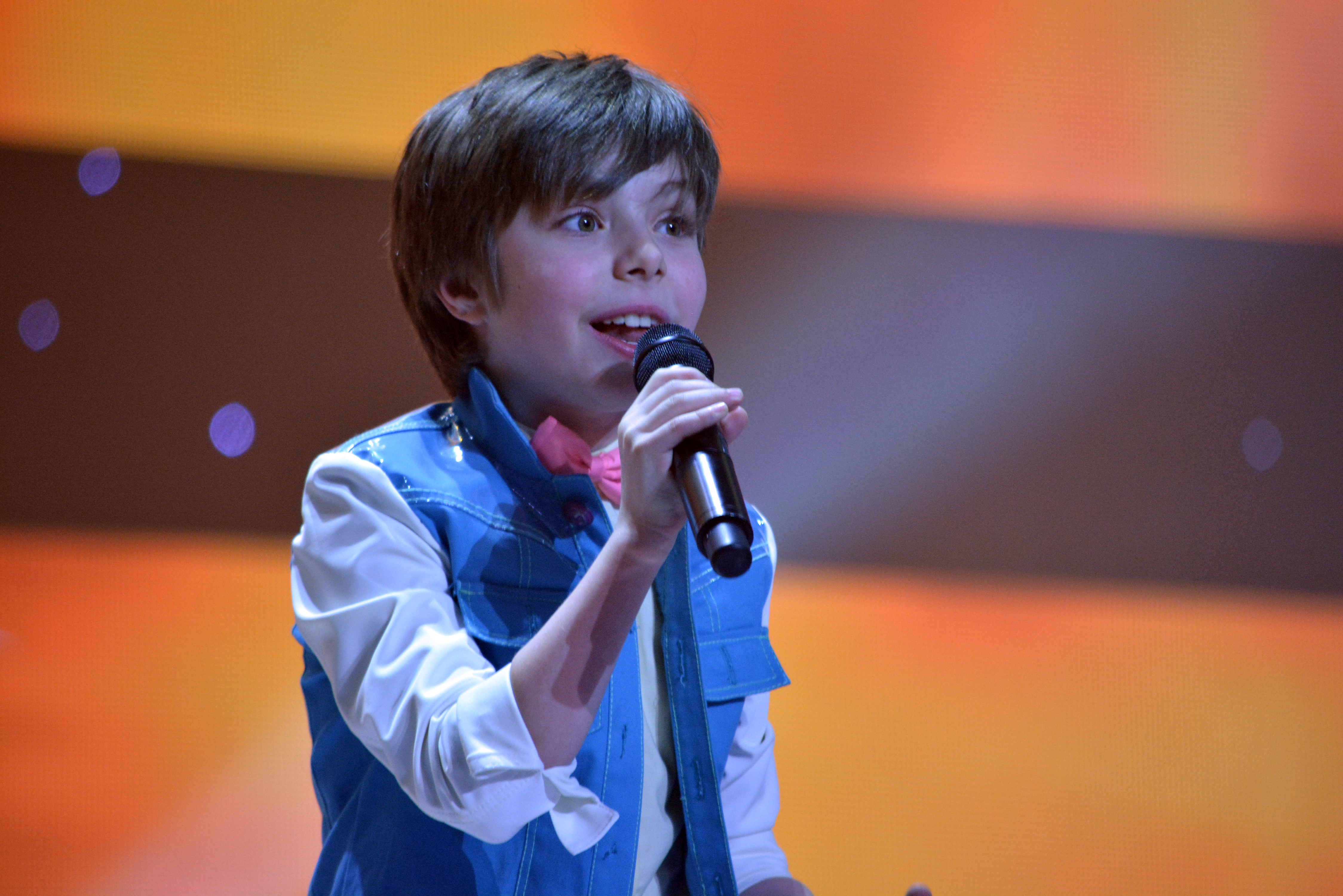 JESC 2013 (Azerbaijan) Rustam Karimov at rehearsal